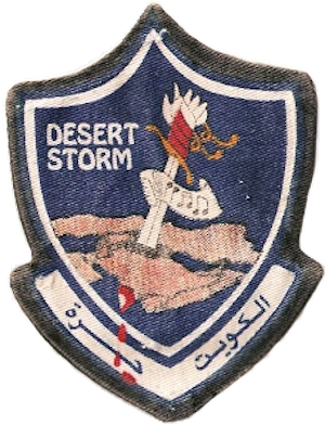 10th Tactical Fighter Squadron 1991 Desert Storm patch